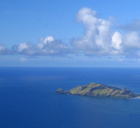 Aerial View of Agakauitai (Gambier Islands), French Polynesia